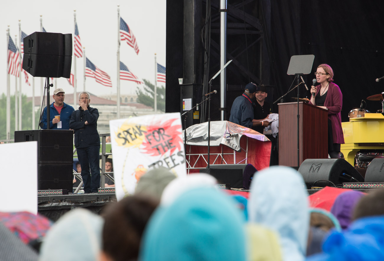 Dr. Duffy spoke about the importance of science. As an example, she talked about her work on fungal infections and how research in that field could contribute to treatment of serious health issues. The "Speak for the Trees" sign in the lower left was held by a participant and refers to Dr. Suess's the Lorax. Seen at the 2017 March for Science/Earth Day event in Washington, DC. Activities included teach-ins on scientific and environmental topics, speakers, music, and a march to the U.S. Capitol. Seen at the 2017 March for Science/Earth Day event in Washington, DC. Activities included teach-ins on scientific and environmental topics, speakers, music, and a march to the U.S. Capitol.